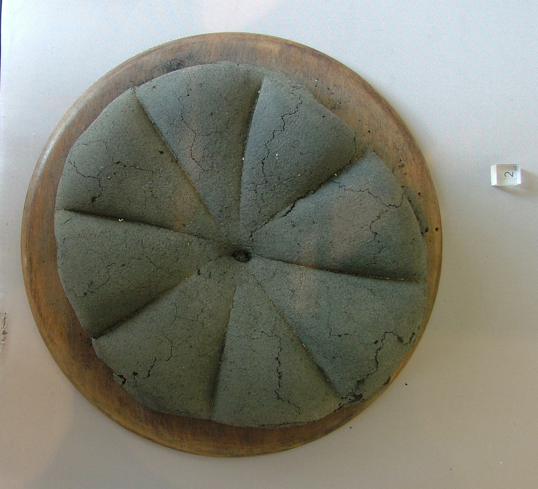 Forma di pane trovata a Pompei / Ancient Roman loaf of bread found at Pomepii. Just to clear matters up for anyone, like me, who found this picture confusing; this bread came from the actual scene of Pompeii where the volcano struck. This explains why it is black!